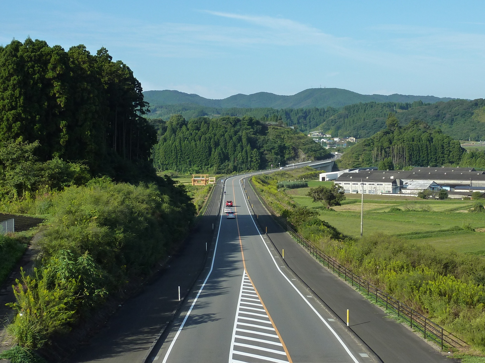 The National Route 269 Umetani Bypass (Tano-cho, Miyazaki City, Miyazaki Prefecture, Japan).